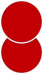 Cherry 16 Trailer Sailer class insignia